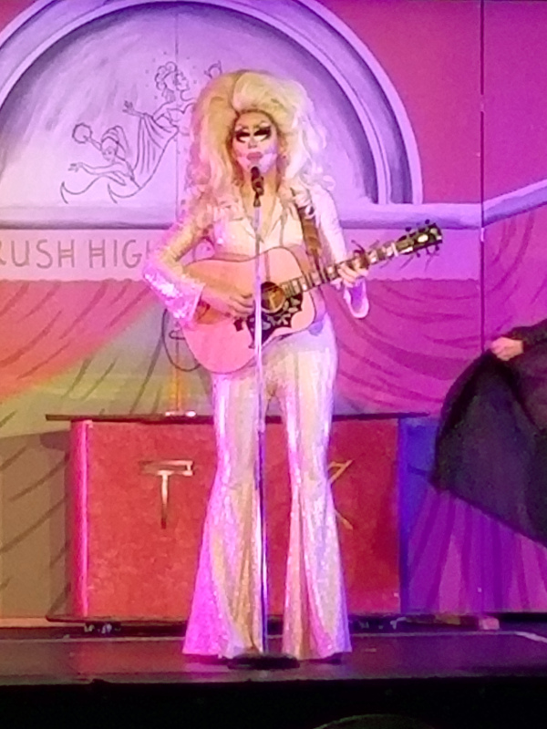 Trixie Mattel singing "Time After Time" at Peaches Christ's Trixie and Katya's High School Reunion at the Castro Theatre in San Francisco, California, United States